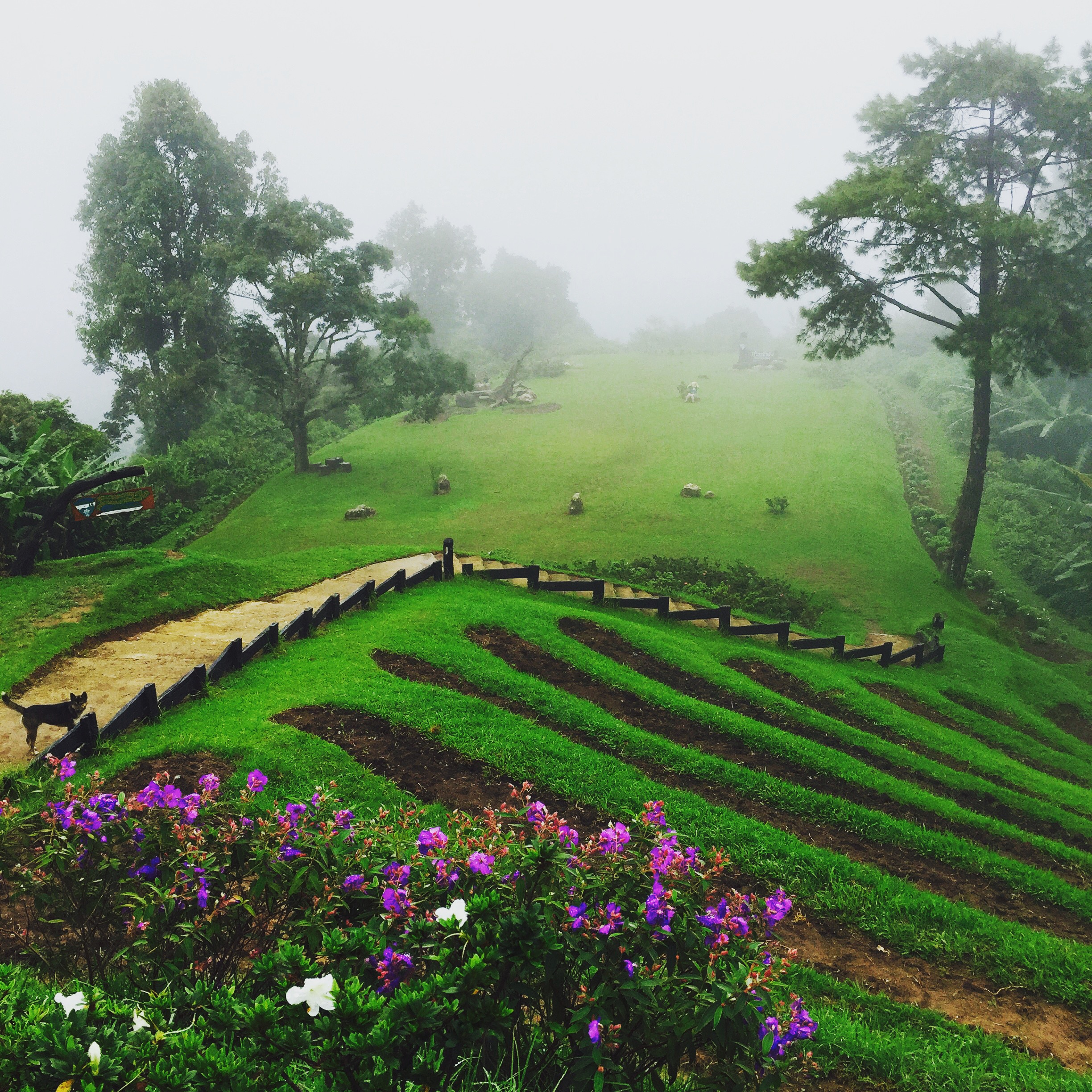 Kuet Chang, Mae Taeng District, Chiang Mai 50150, Thailand